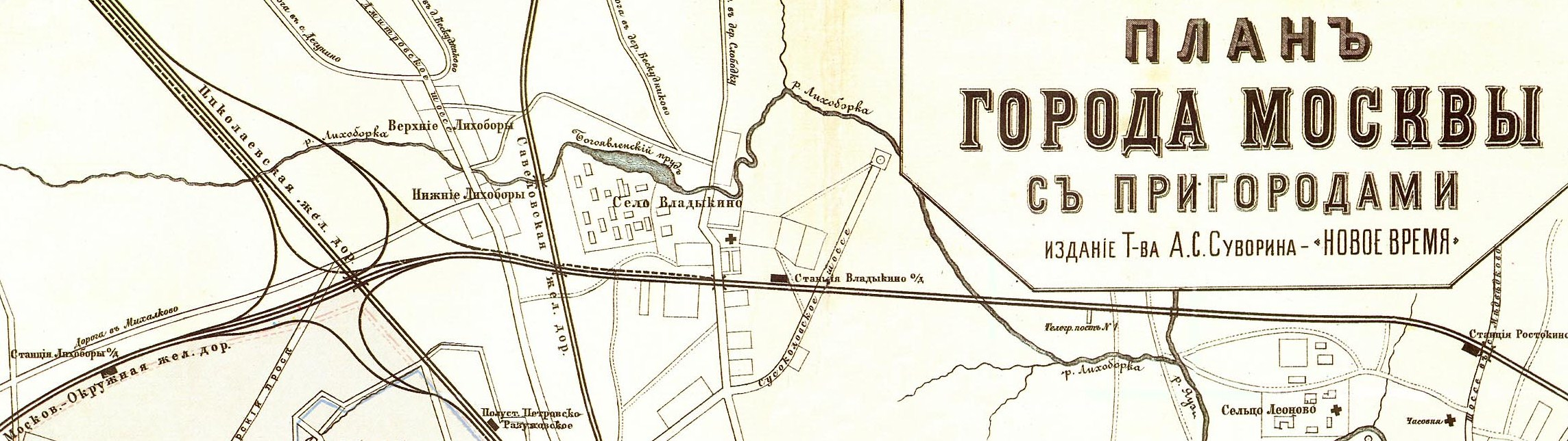 Fragment of map of Moscow showing the original route of Likhoborka river